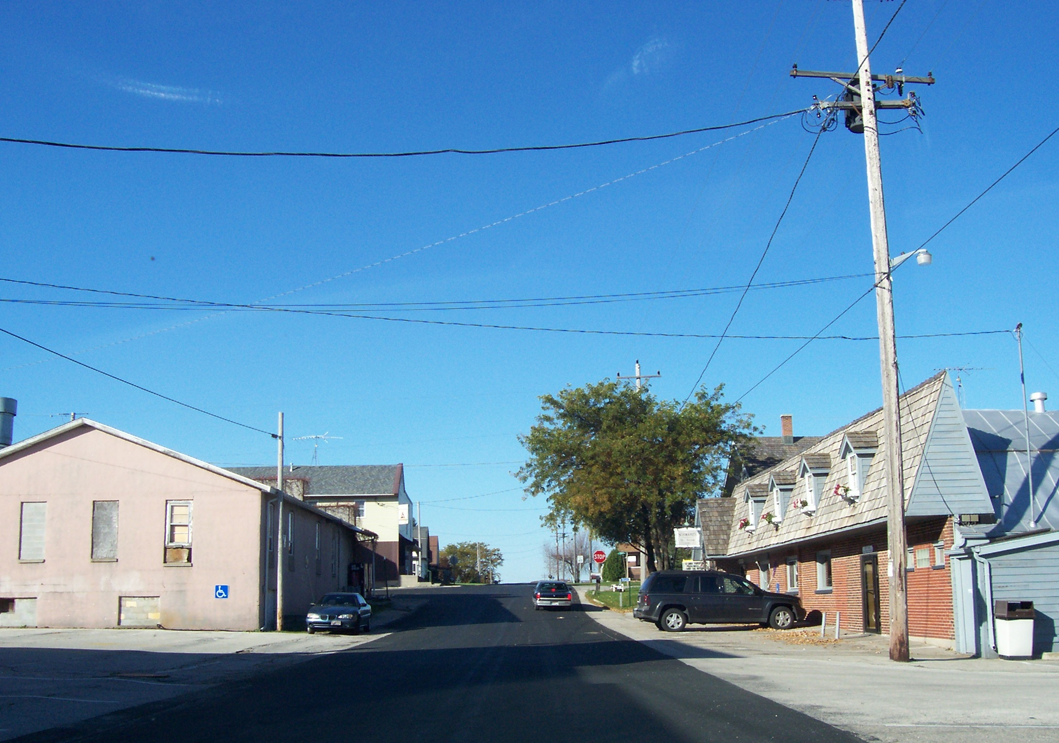 Looking west at downtown St. Anna, Wisconsin, USA. Buildings on the right are in Calumet County, Wisconsin and buildings on the left are in Sheboygan County, Wisconsin. The Town of Russeel (Sheboygan County) townhall is behind the pink building (Image:TownOfRussellWisconsinTownhall2007.jpg).